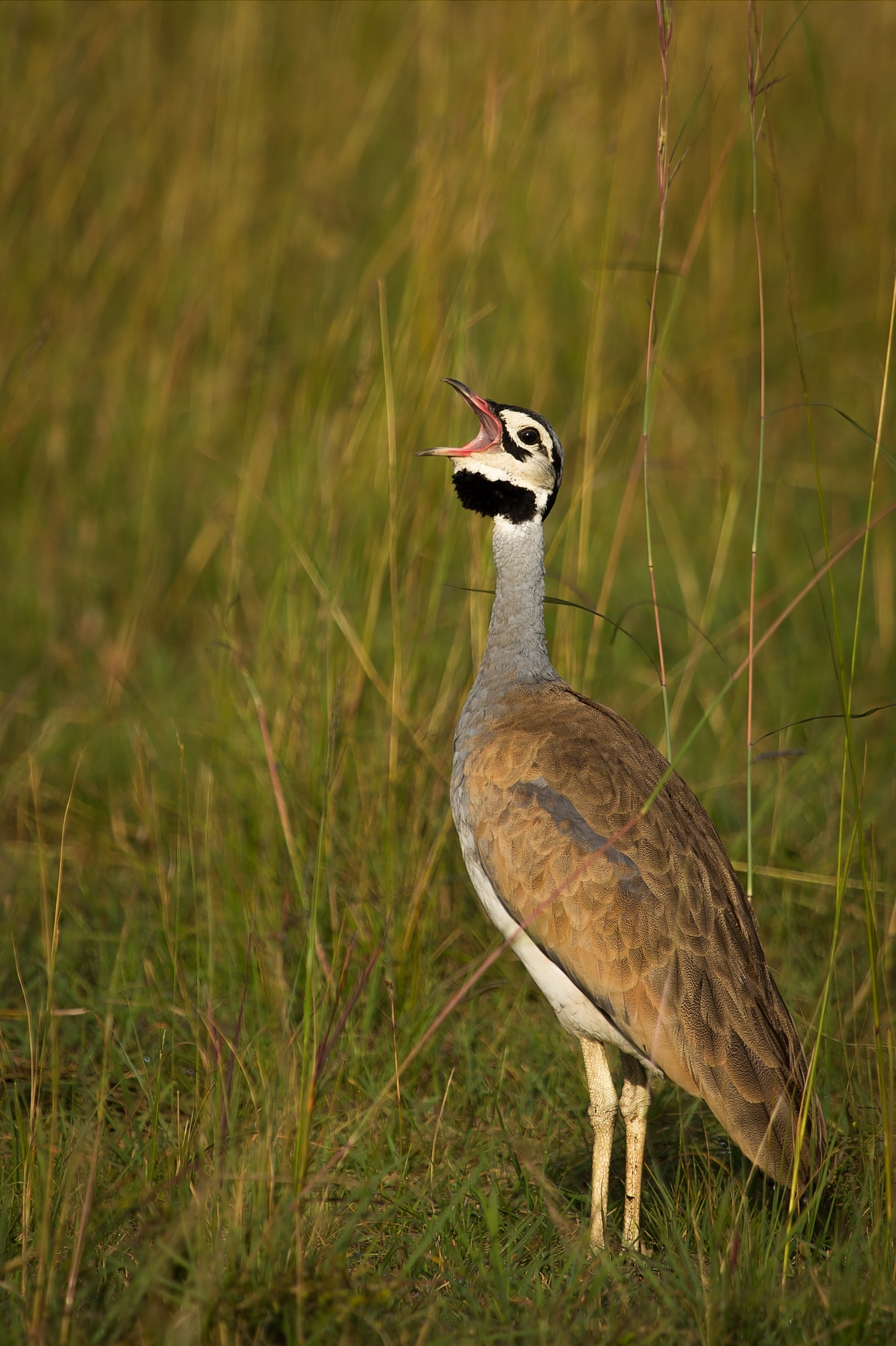 At Maasai Mara